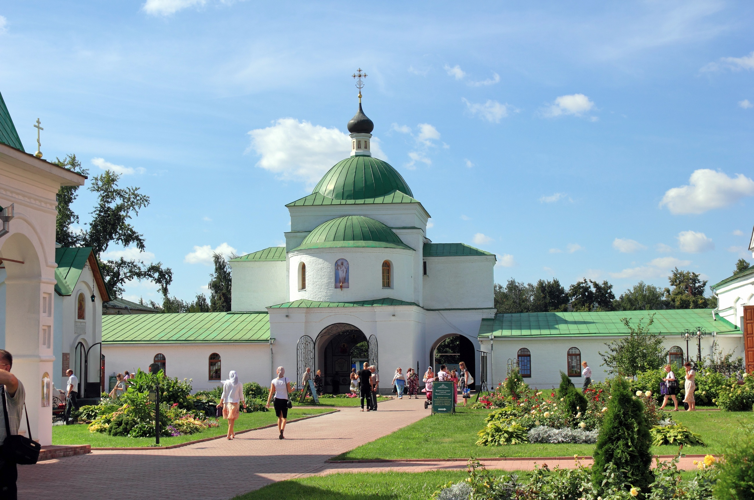 Murom. Transfiguration monastery. The Gate Church